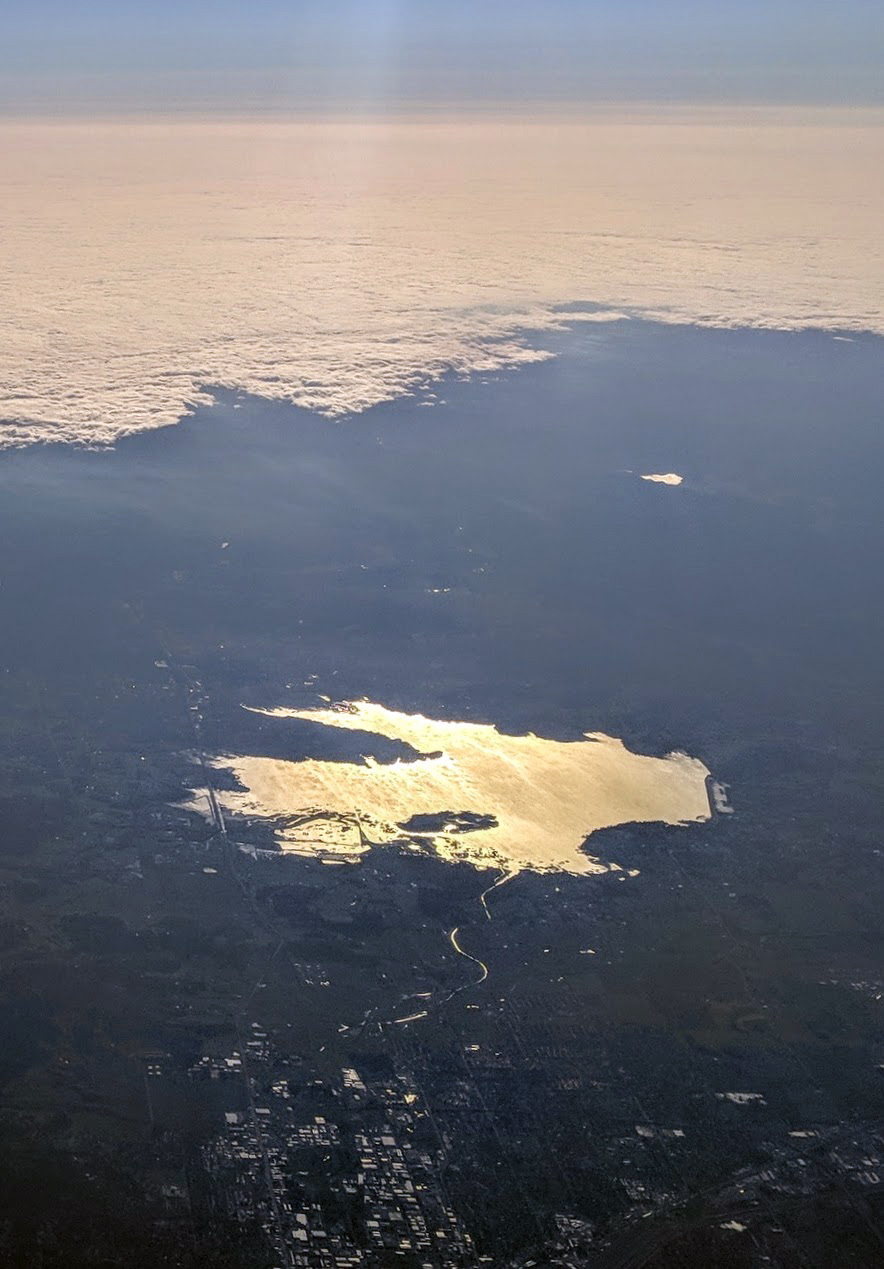 Fern Ridge Reservoir (or Fern Ridge Lake) is a reservoir on the Long Tom River in the U.S. state of Oregon. The reservoir is located approximately 12 miles (19 km) west of Eugene on Oregon Route 126.